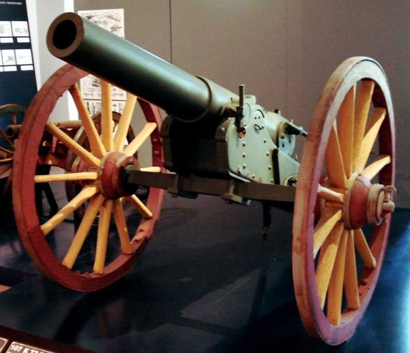 Russian 107 mm gun Model 1877, displayed in Finnish Artillery Museum. This particular gun was manufactured by German Krupp in 1878. Photo taken on June 18, 2006. Source: Photo by me, User:Balcer.